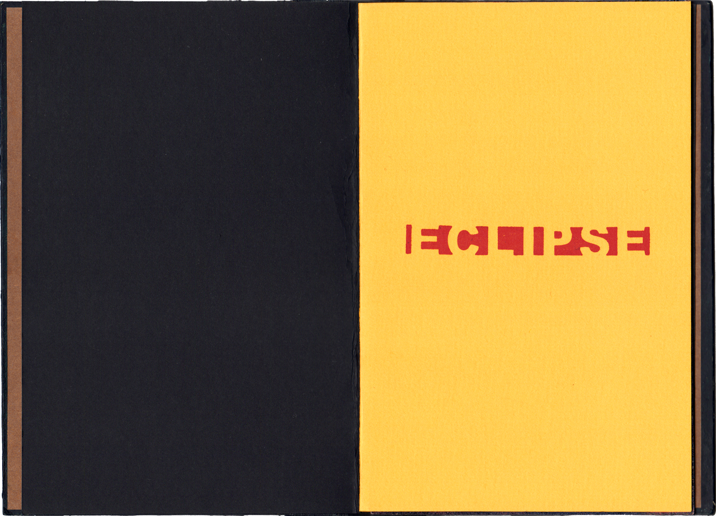 Contemporary art. Artist's book. Abstract art.